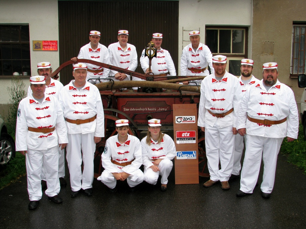 A squad of volunteer firefighters from Jámy, Czech Republic, in historical uniforms with preserved functional pump